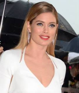 Doutzen Kroes at the Cannes Film Festival